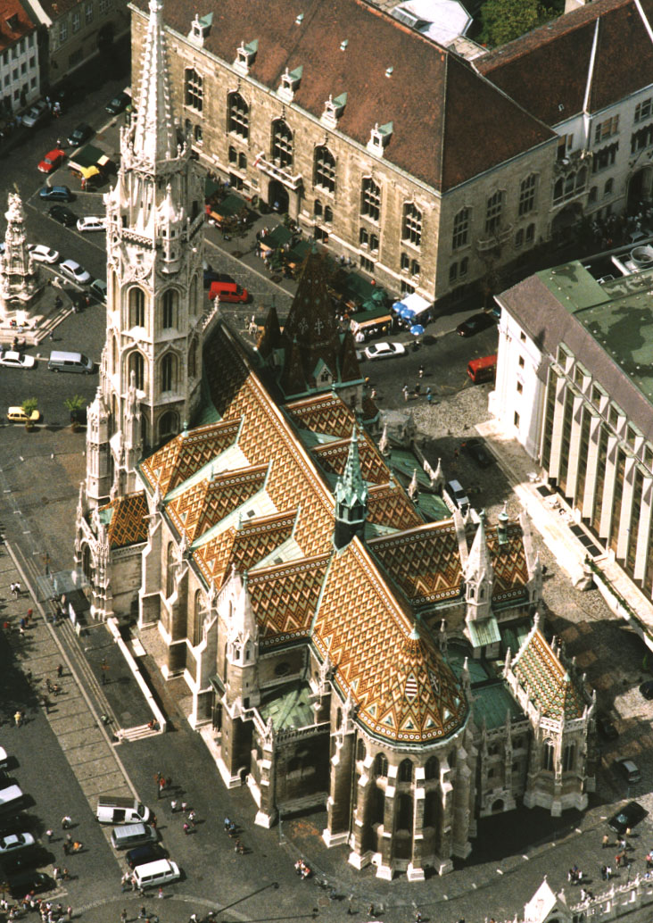 Matthias Church - Buda Castles - Budapest - Hungary - Europe